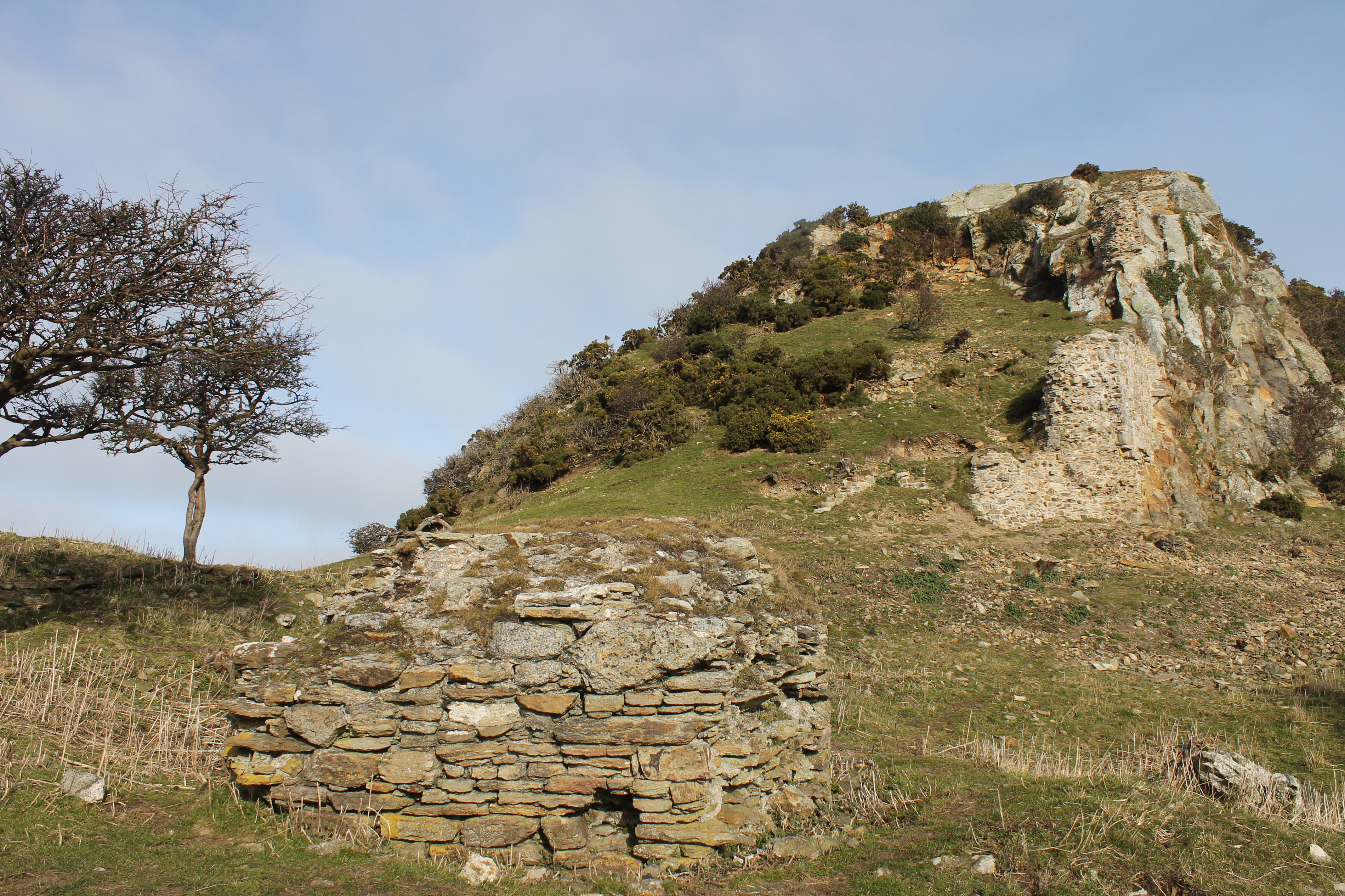 Castell Deganwy Castle (Welsh: Caer Ddegannwy; Modern Welsh: Castell Degannwy) was an early stronghold of Gwynedd and lies in Deganwy at the mouth of the River Conwy in Conwy, North Wales.